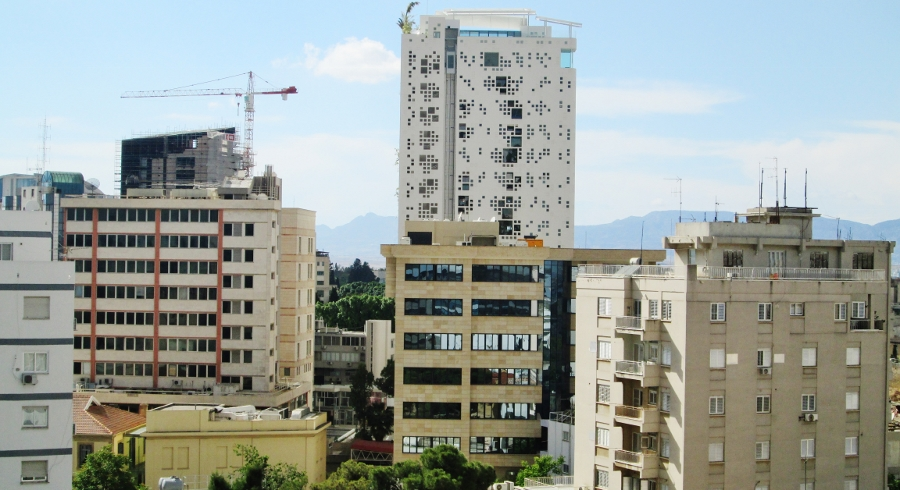 Cyprus capital Nicosia